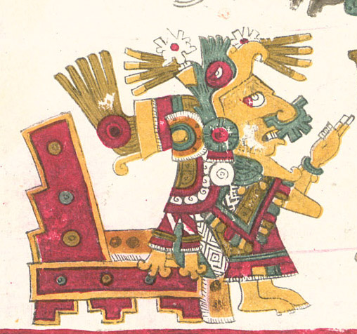 A drawing of Xochiquetzal, one of the deities described in the Codex Borgia